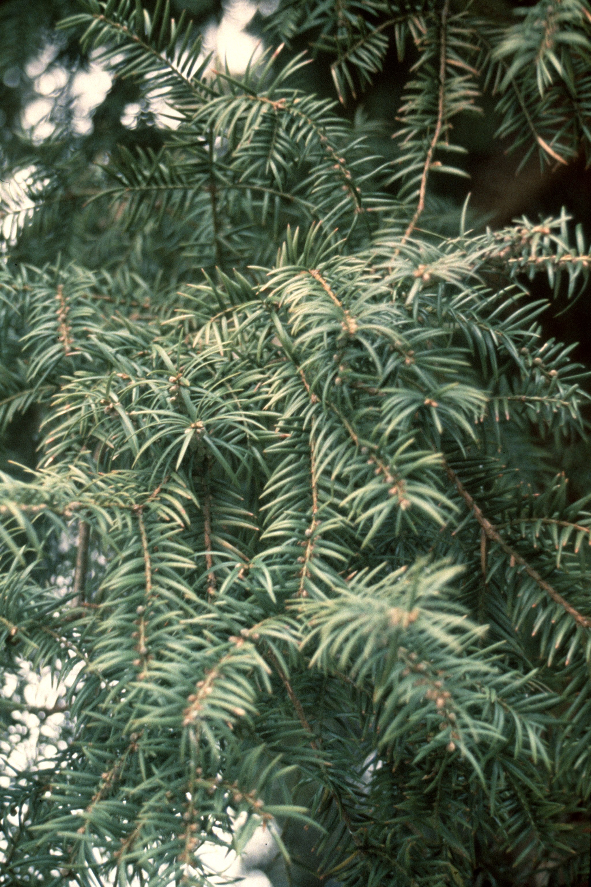 Torreya taxifolia foliage